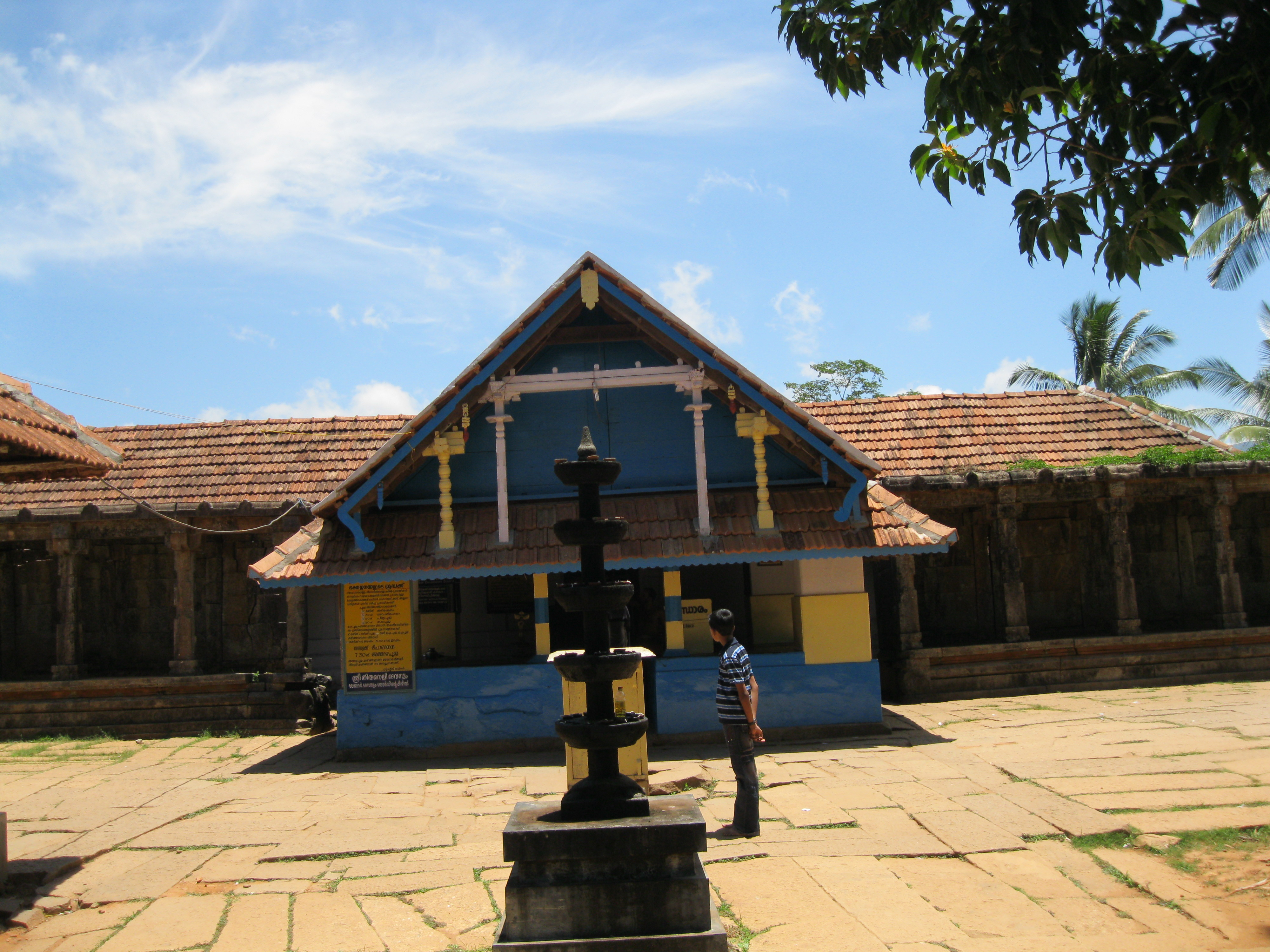 thirunelli temple ,kerala ,india